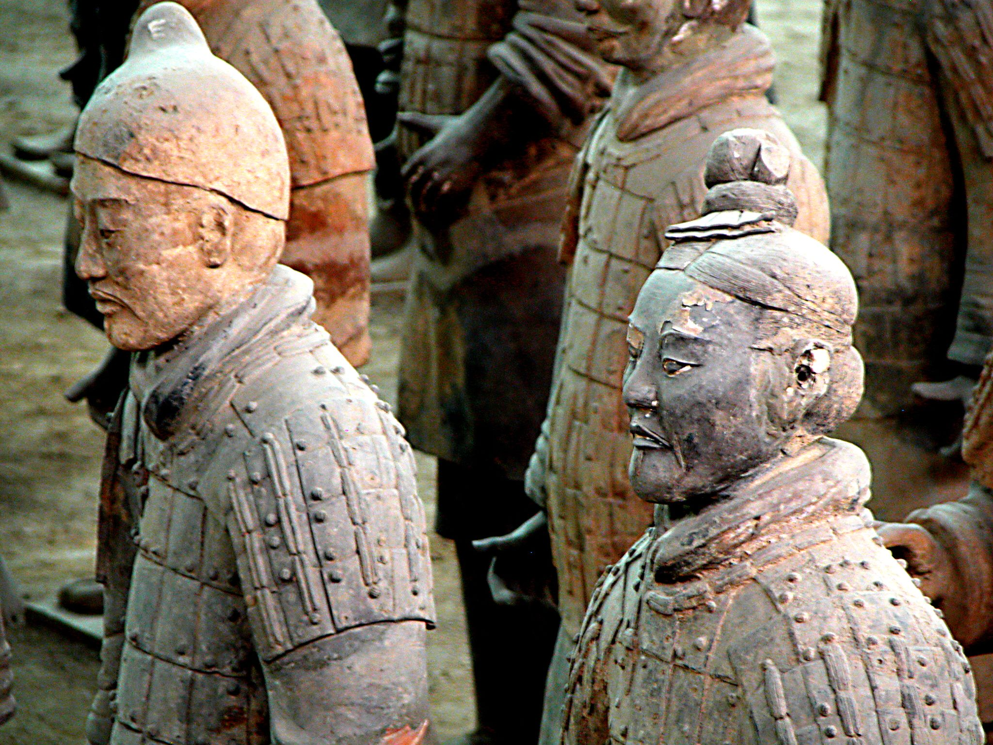 Terracotta Army detail, Xi'an, China Photo by Peter Morgan